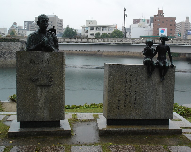 Memorial of the Japanese children's books author Suzuki Miekichi (1882-1936) in Hiroshima